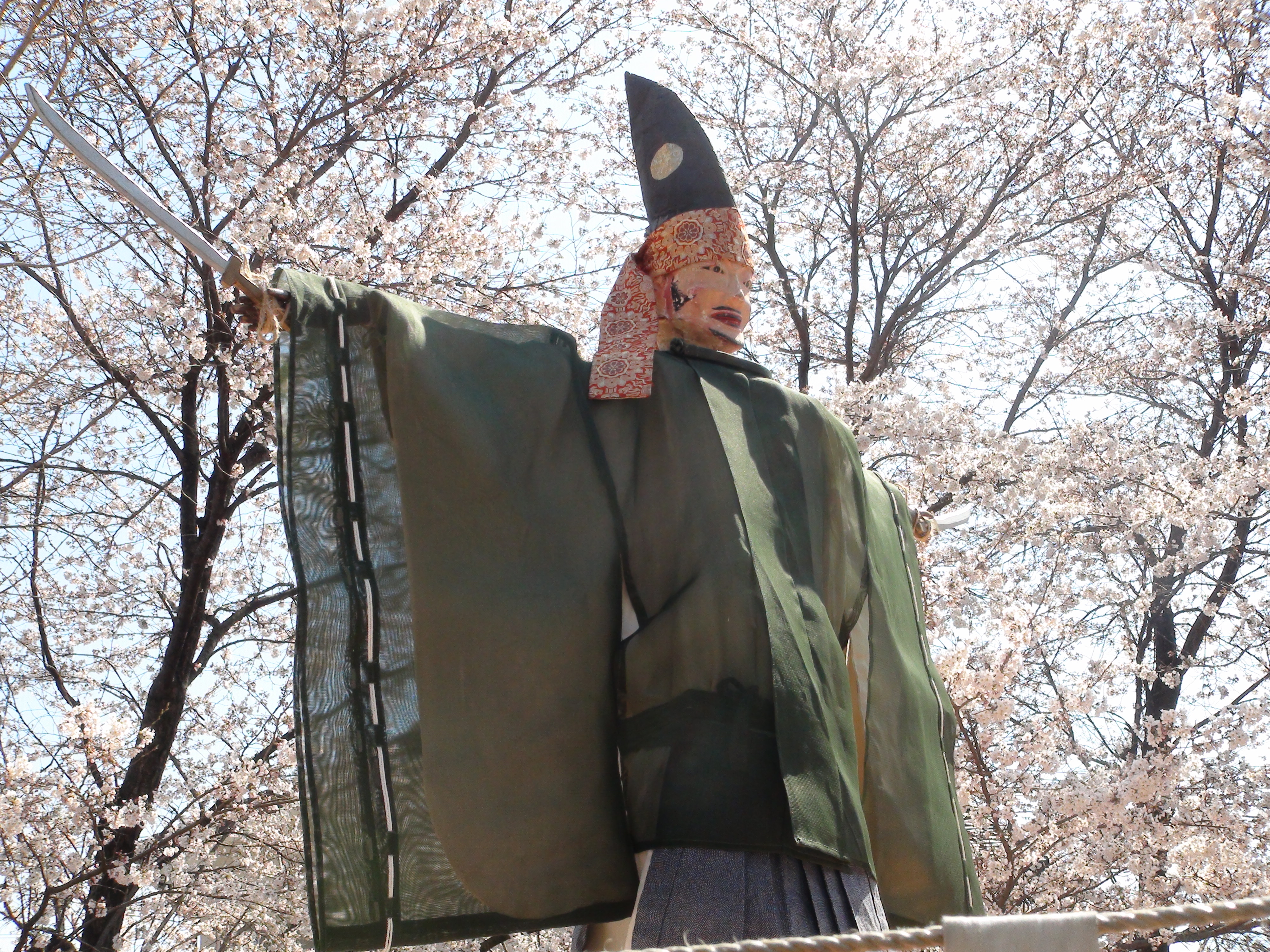 Tenzushi-mai Okashima-Sama B